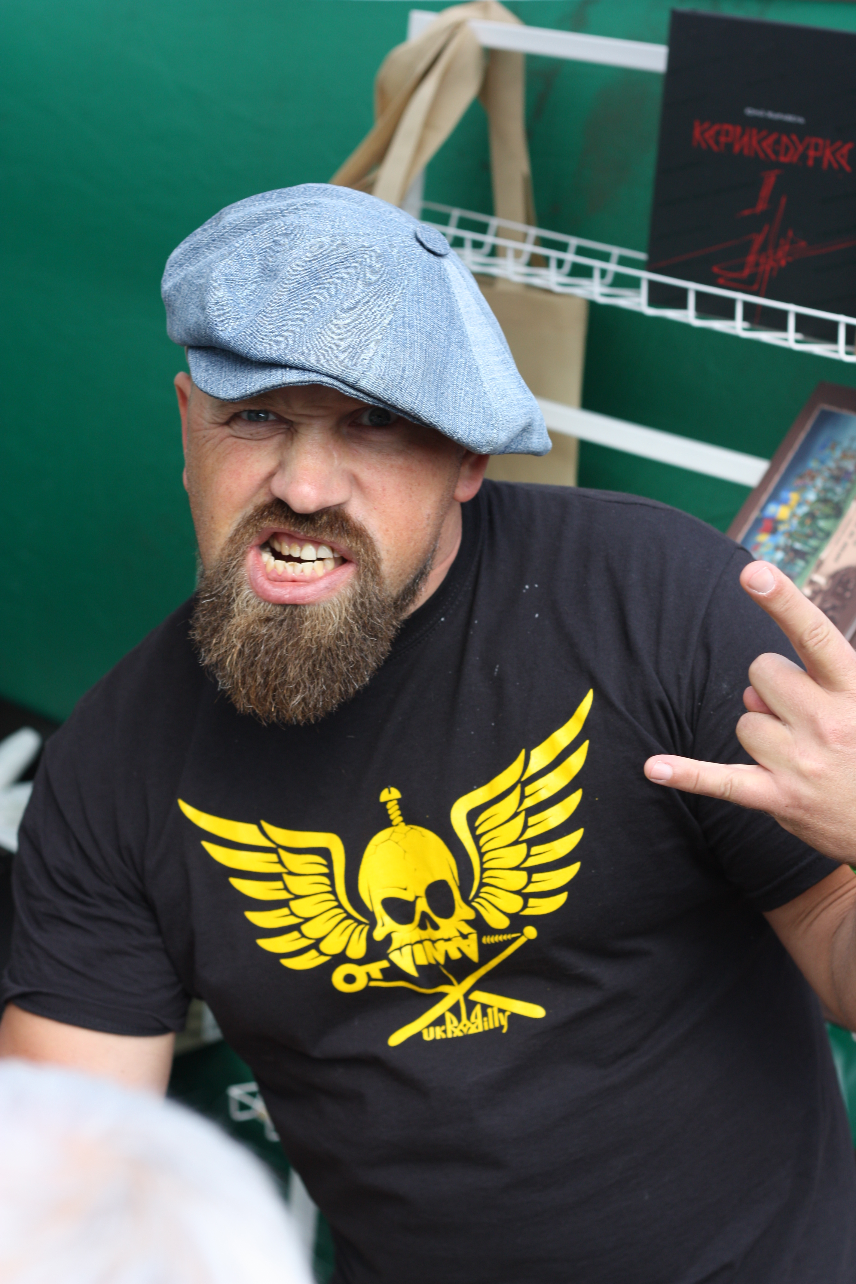 Publishers' Forum in Lviv 2017